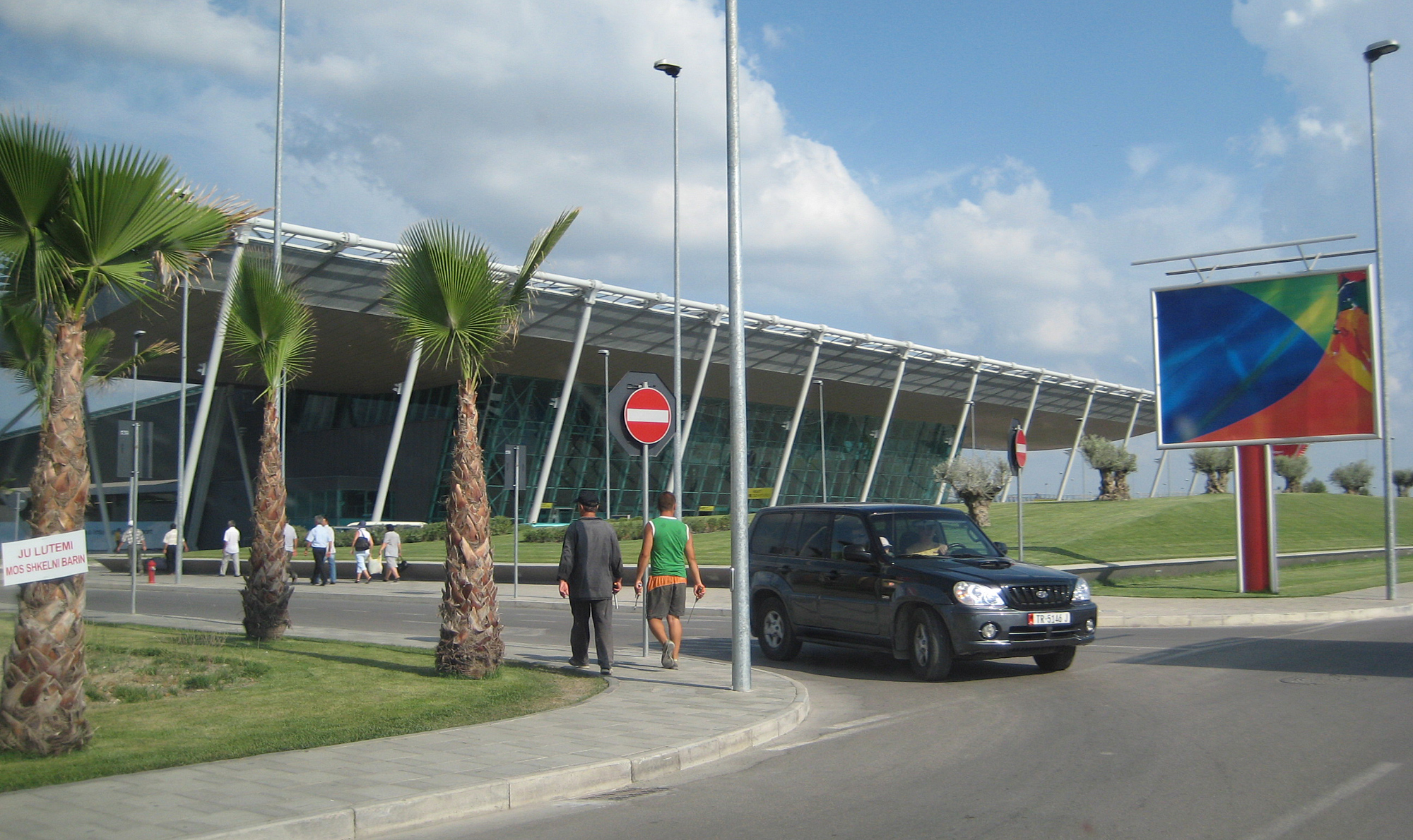 New Terminal of Tirana's Rinas Mother Teresa Airport